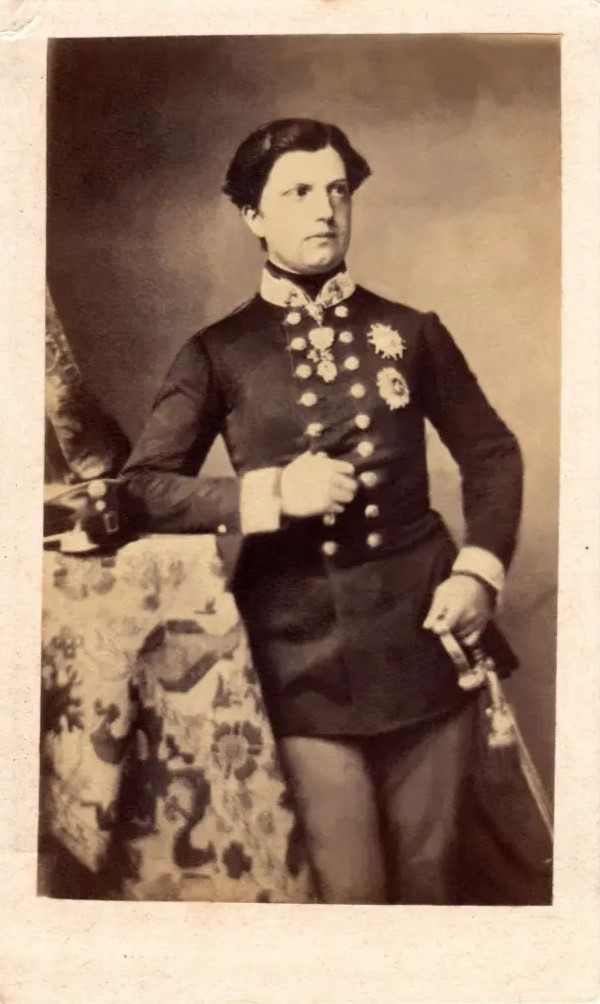 Ferdinand IV, Grand Duke of Tuscany